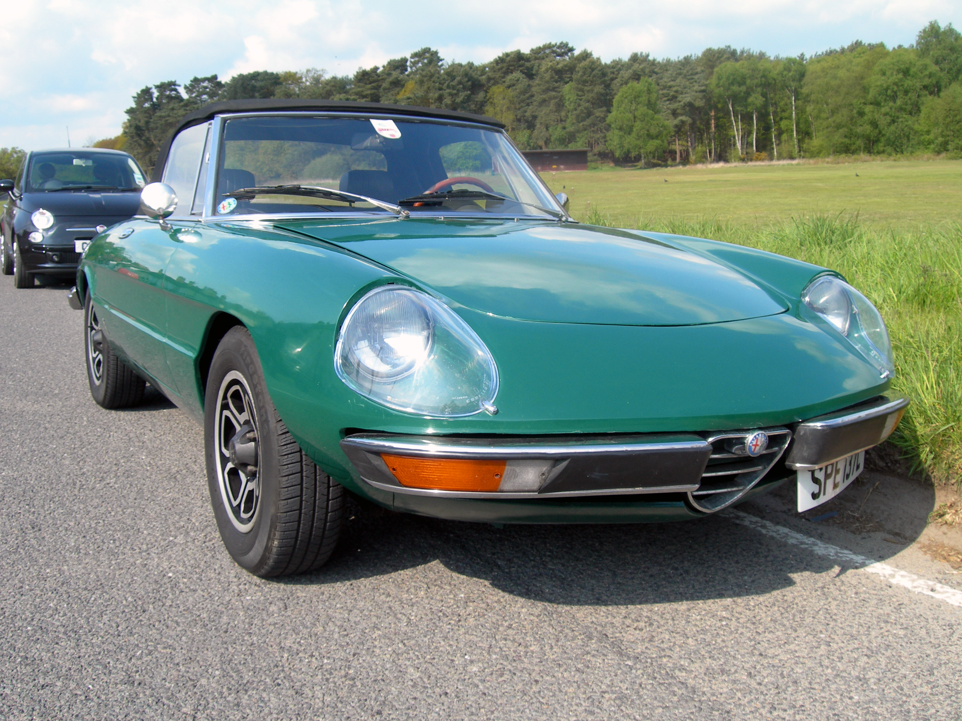 Reigate Heath,May 2010